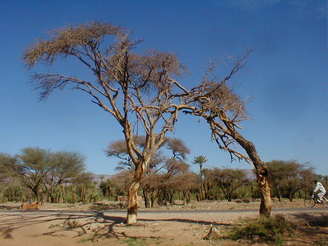 dried up Acacia nilotica, after 9 years of drought, and dicrease of the soil moisture coming from Oued Draâ, due to the dam of Ouarzazate (Morocco) Walon: acacia do Nil souwé evoye après 9 ans d' setchresse en erote, et l' discrexhaedje del crouweur ki vneut dins tere a pårti di l' Aiwe di Draâ, a cåze di l' astantche di Warzazate å Marok (portrait saetchî pa L. Mahin).